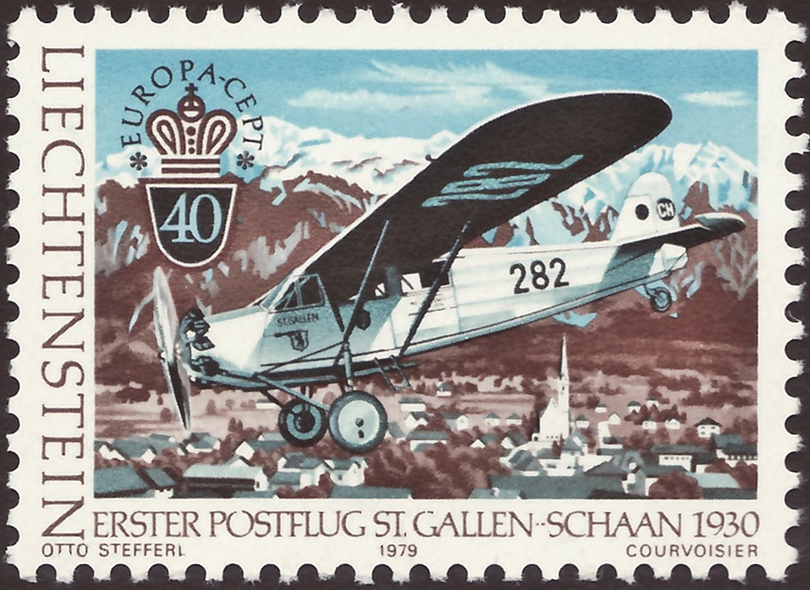 Stamp of the Principality of Liechtenstein; 1979; commemorative stamp of the issue "EUROPA (C.E.P.T.), 1979 - 20th Anniversary of the Treaty of the C.E.P.T."; national stamp issues to the topic "History of the Post and Telecommunications"; stamp of Liechtenstein with a motive to the First Liechtenstein Mail Flight which took place on 31 August 1930 between St.Gallen (Switzerland) and Schaan (Lichtenstein); stamp drawing with a mail plane of the type Comte AC-8 over Schaan at the first mail flight on this day; painting by the Austrian artist Otto Stefferl (*1931) after a photography from 1930; the "40" inside an emblem is the nominal value of this stamp; mint stamp Stamp: Michel: No. 723; Yvert et Tellier: No. 664; Scott: No. 663 Color: multicolored Watermark: none Nominal value: 40 (Rappen, Centimes) Postage validity: from 8 March 1979 until 31 December 2001 Stamp picture size (printed area without signature line): 33.0 x 22.5 mm